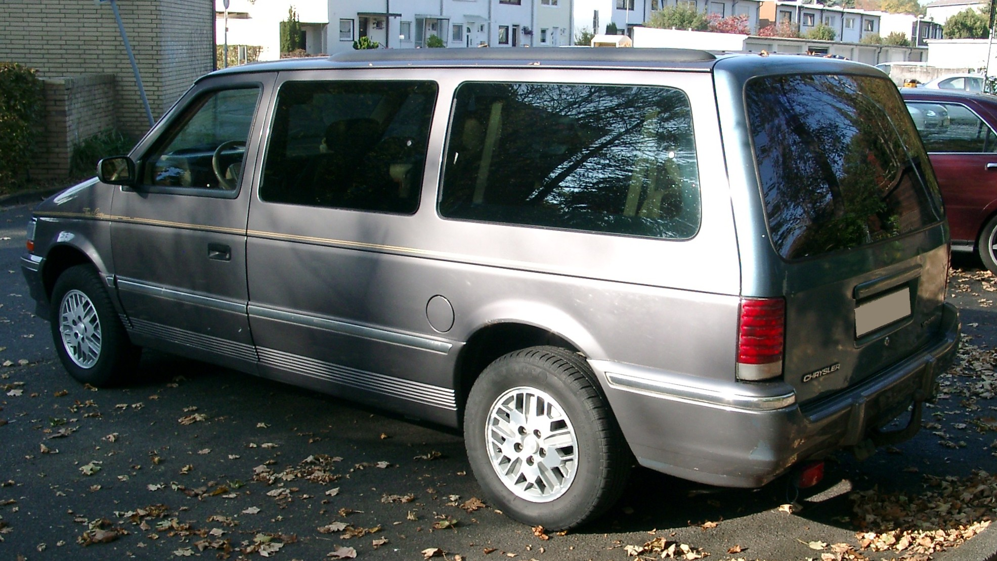 Chrysler Town and Country, 1991-1995